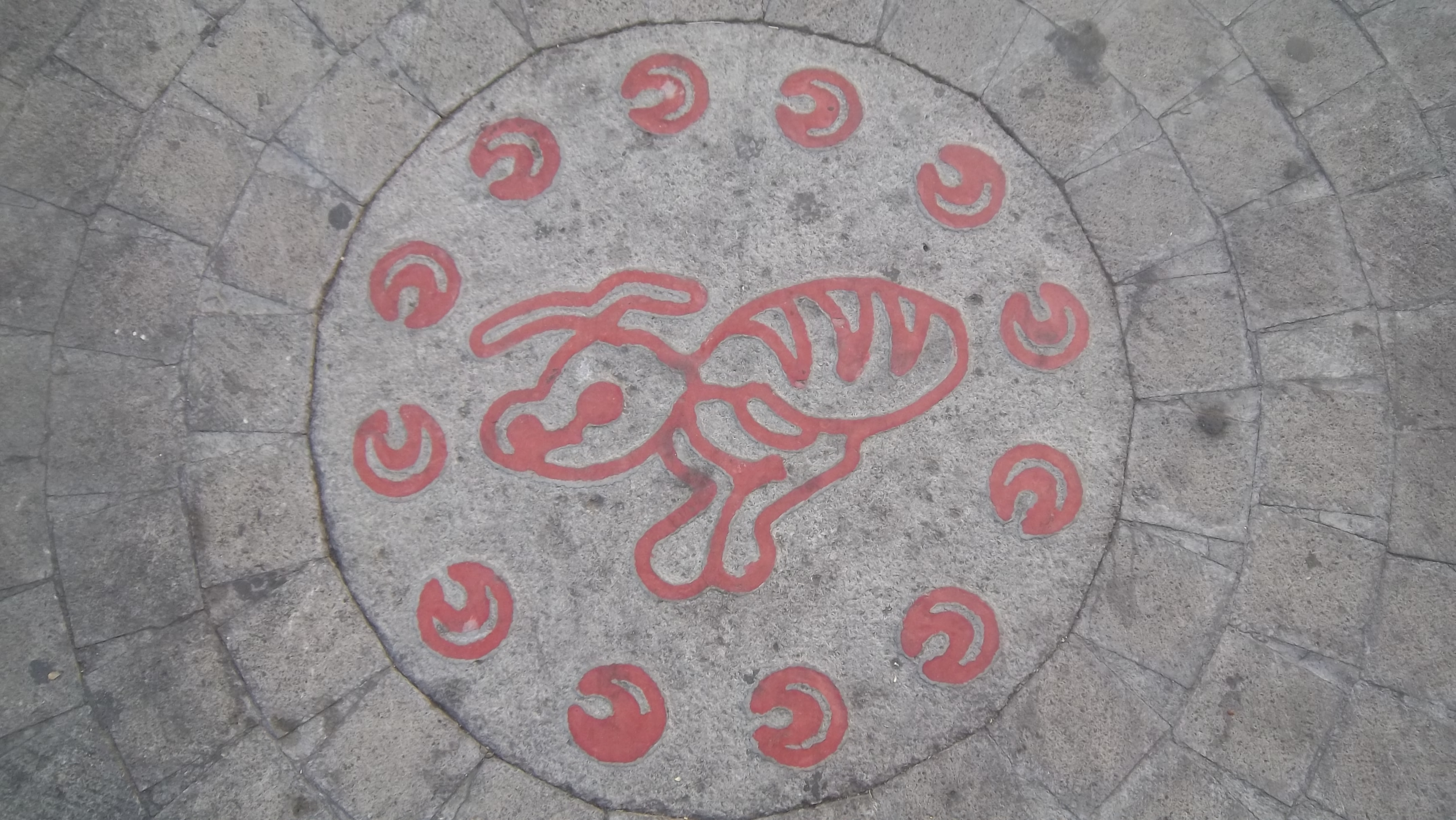 Toponyme of Azcapotzalco in Plaza Cívica Fernando Montes de Oca, Azcapotzalco, Mexico City.